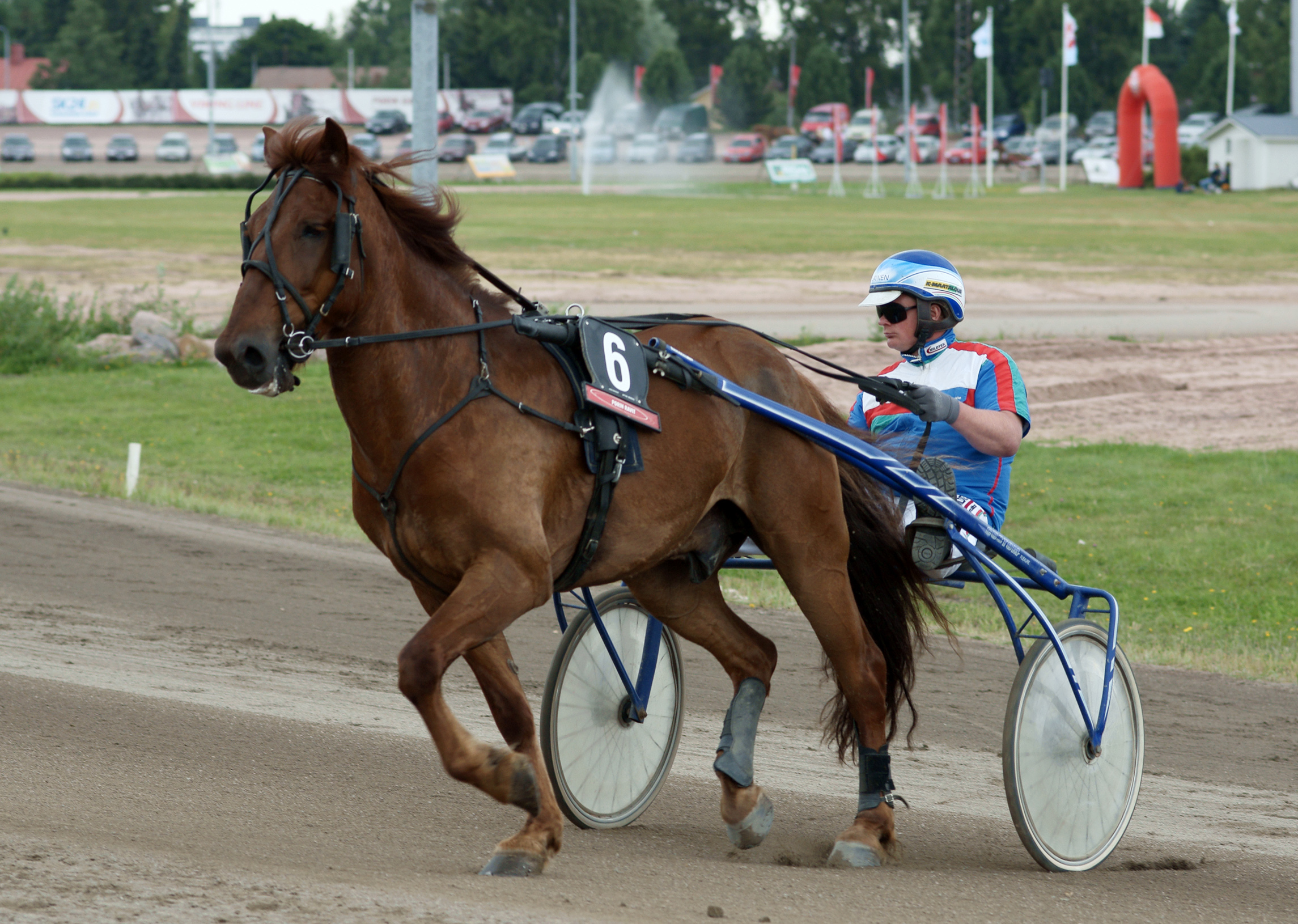 Mika Moisanen driving Babaari in Pori harness racing track.